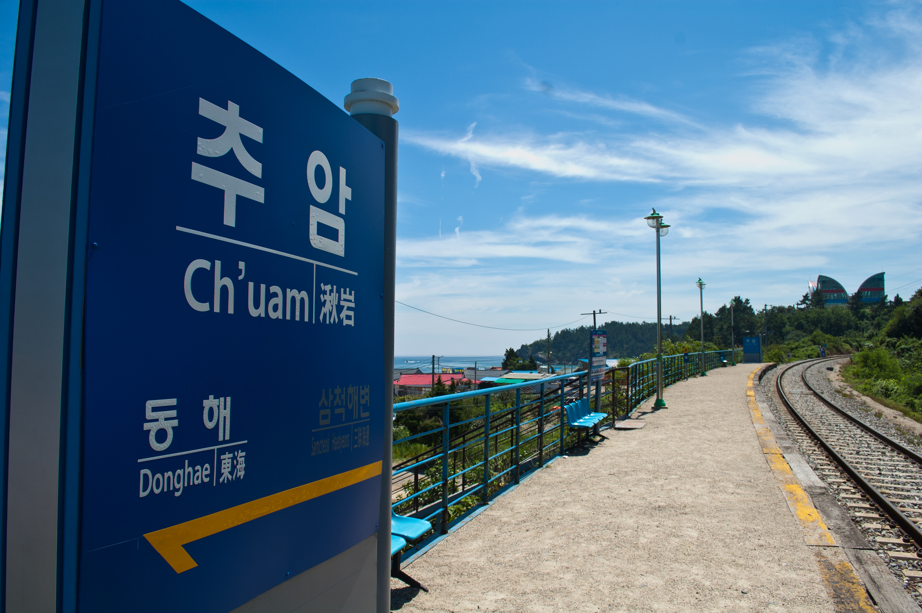 Samcheok Line Chuam Station Panel and platform